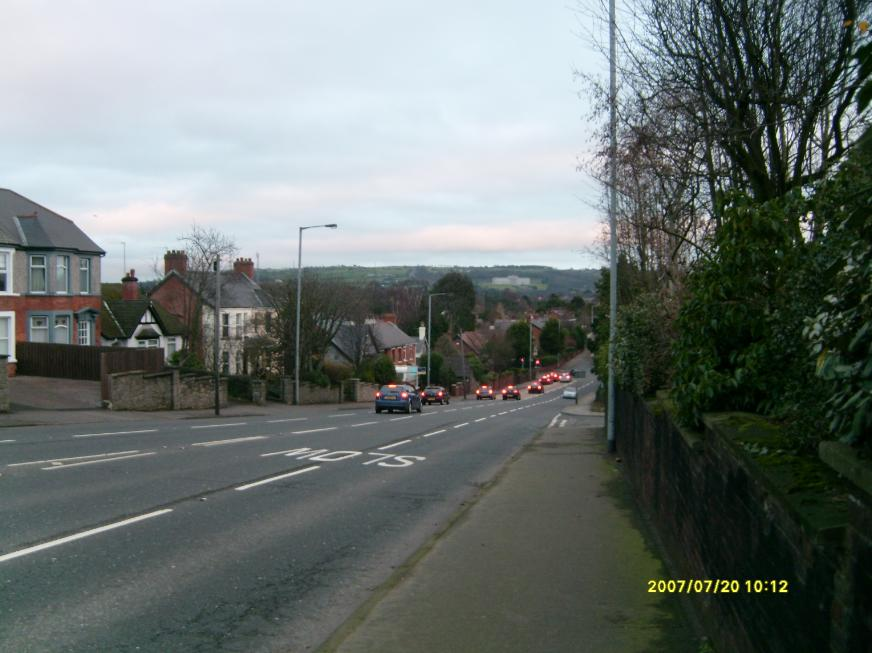 A55 An Cnoc, Béal Feirste, Condae an Dúin (radharc soir ó thuaidh)